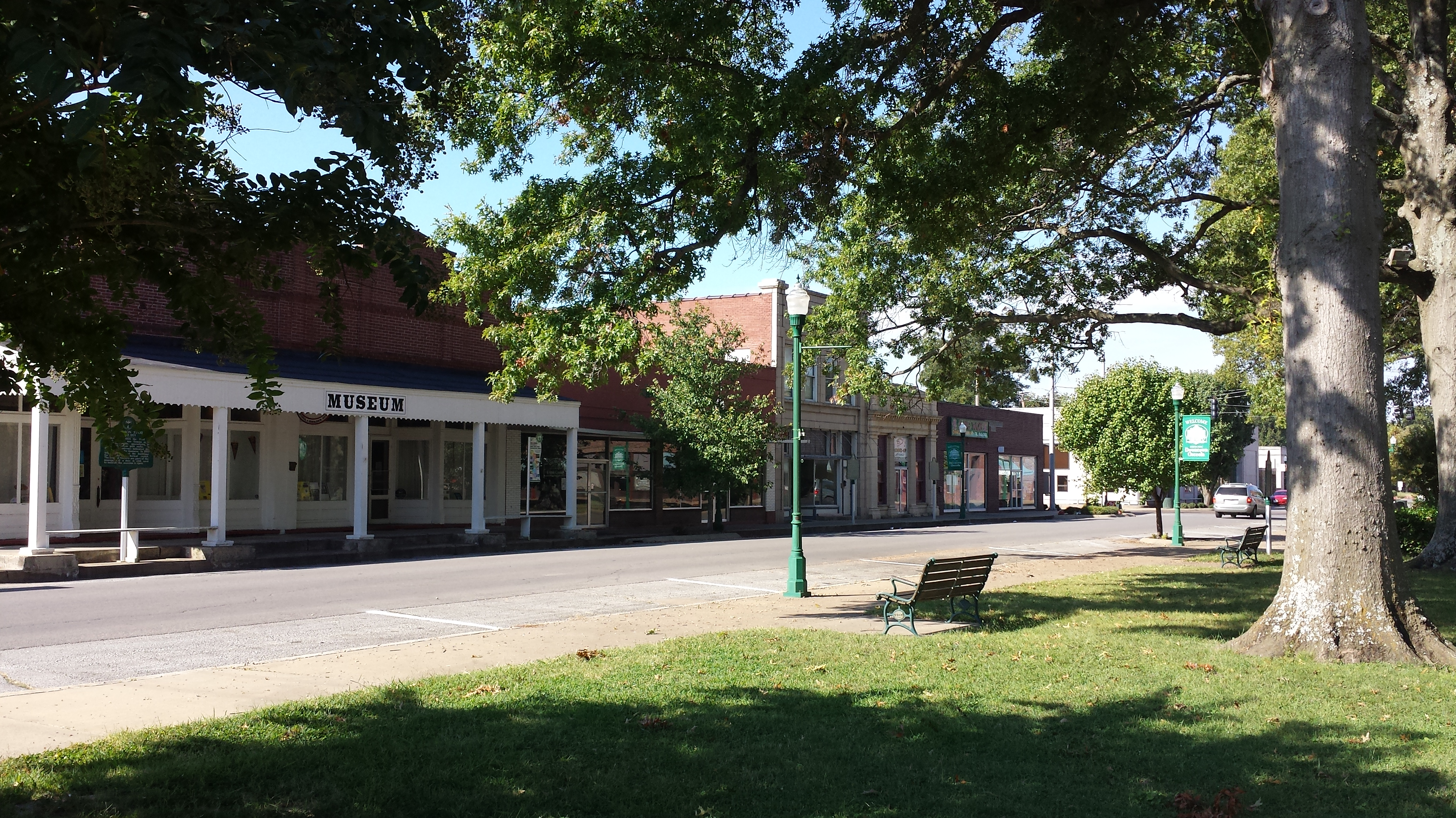 Buildings within the district